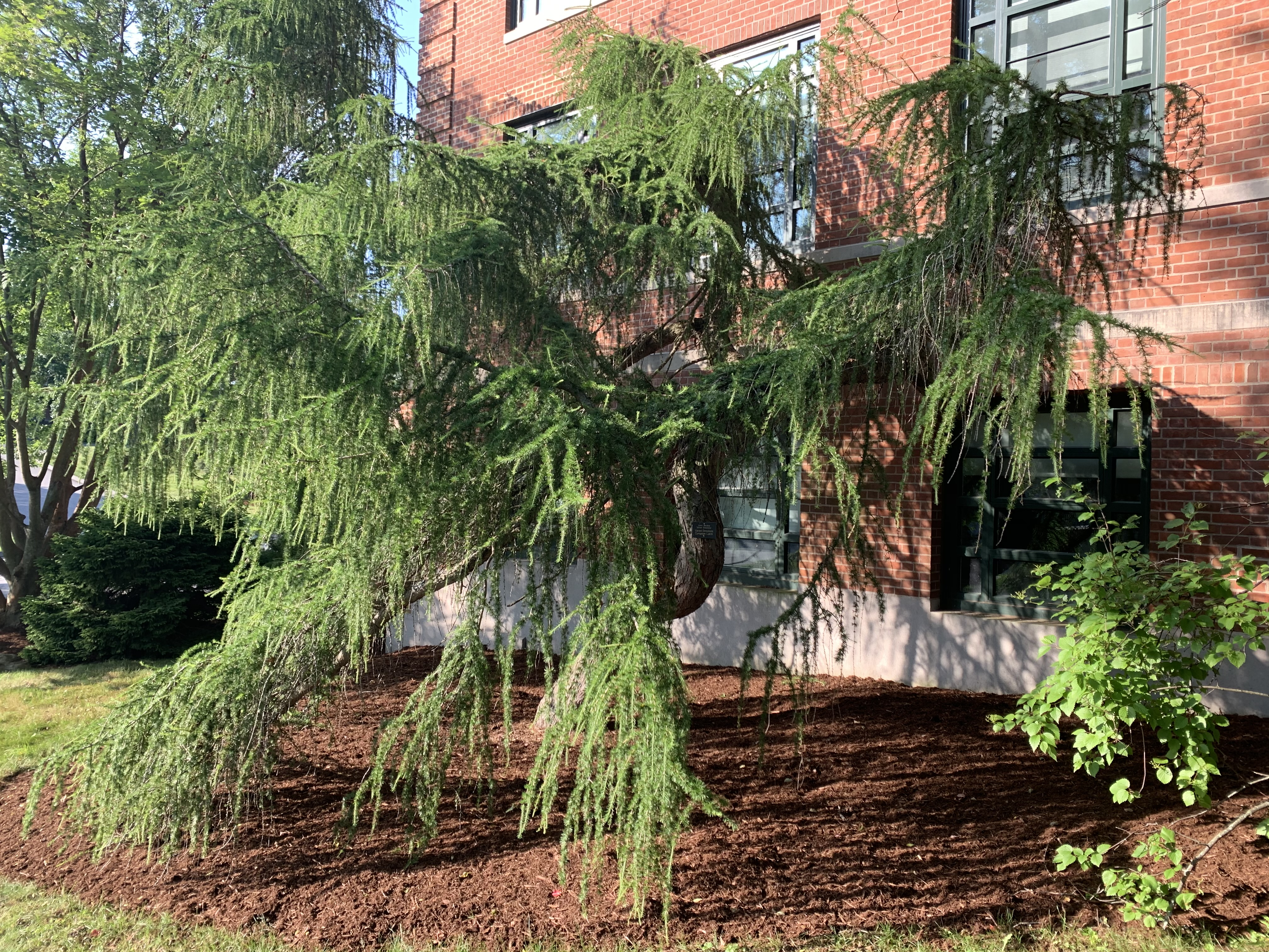 Photo of a mature Larix decidua (Varied Directions European Larch) dwarf conifer cultivated by horticulturist Sidney Waxman and planted outside the W. B. Young Building on the University of Connecticut's campus in Storrs, Connecticut.